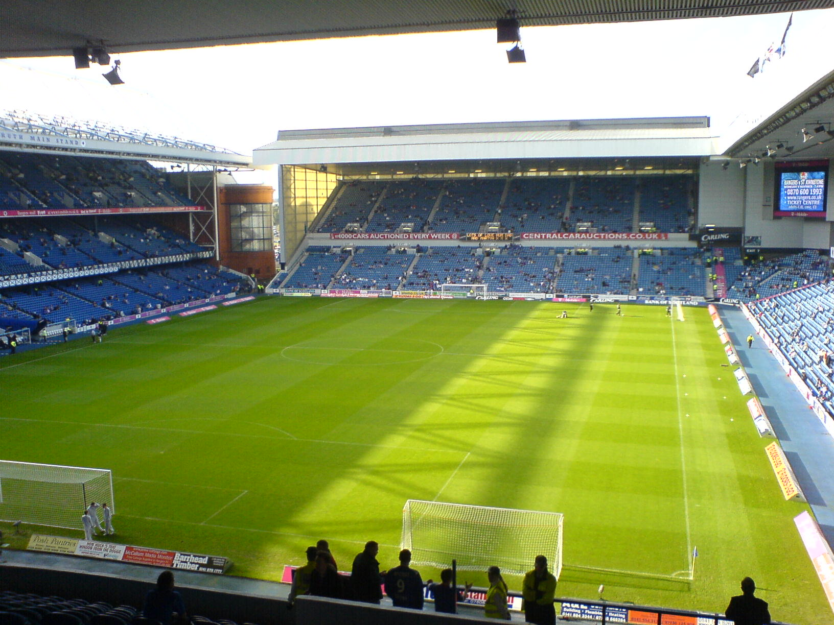 Inside Ibrox Stadium on a matchday